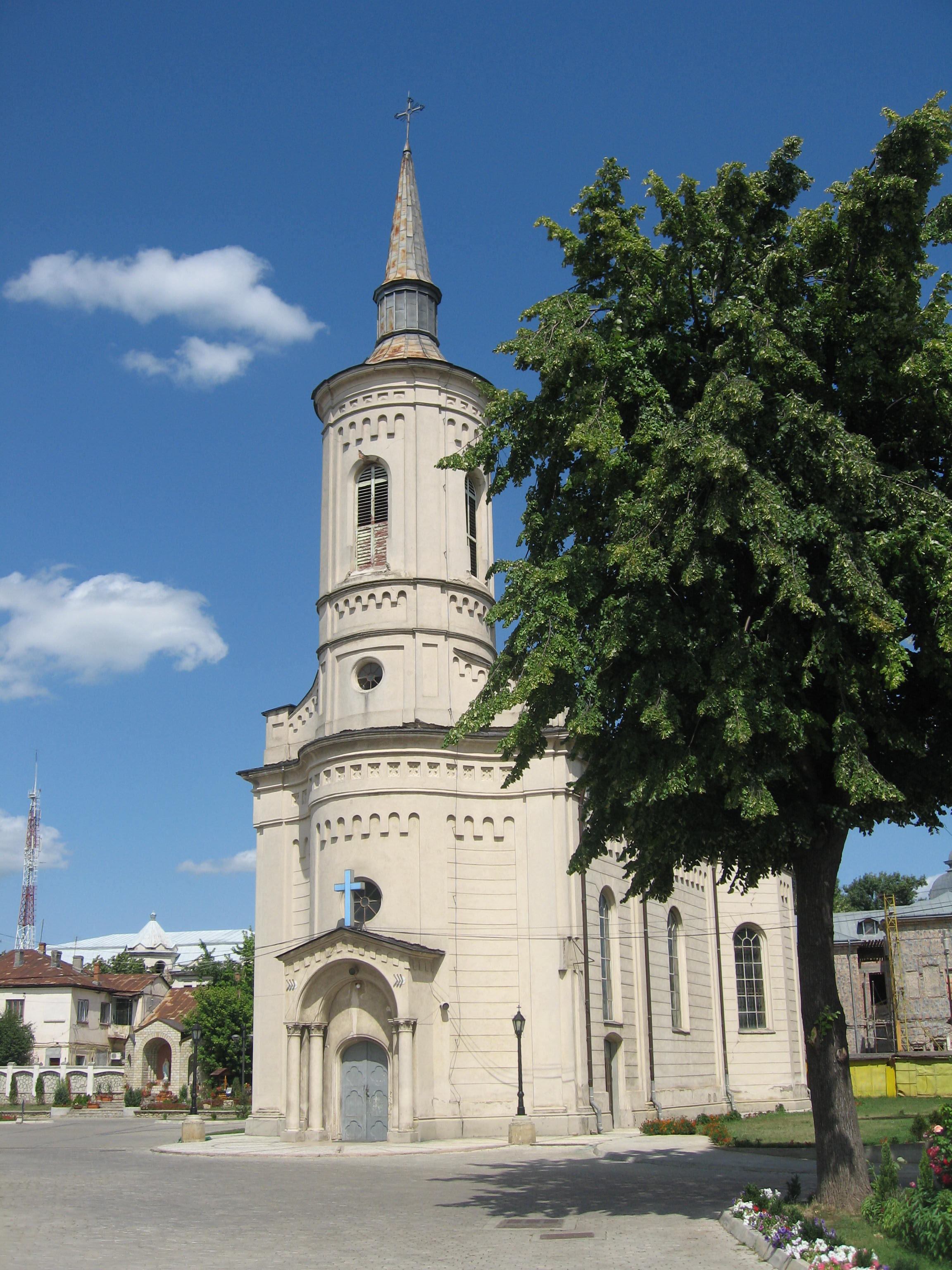 Catedrala Adormirea Maicii Domnului din Iaşi